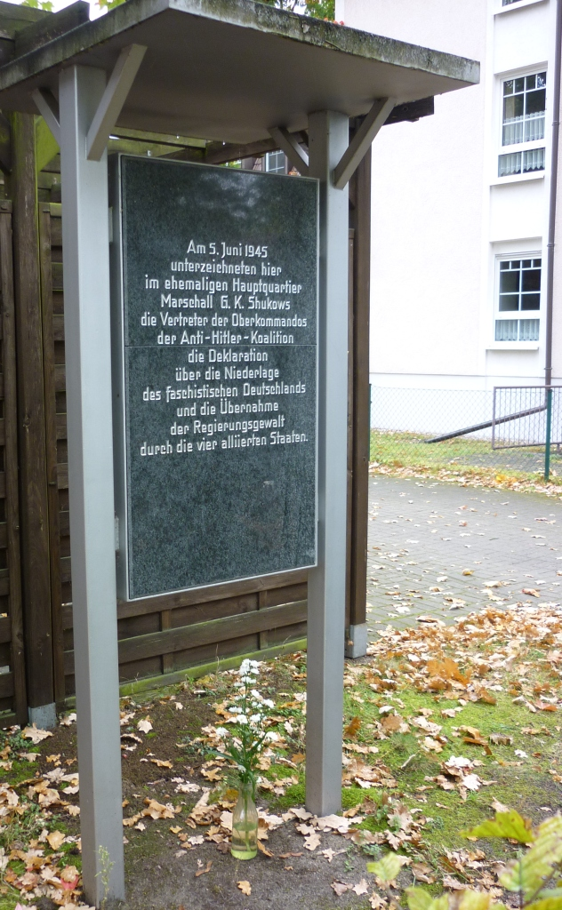 Tablet at the forest resort on Berlin's Niebergall Street memorializes Soviet Marshall Zhukov's leadership at signing of the Allied agreement on the military occupation of Germany. On or about October 3, 2012, the Day of German Unity, an informal bouquet of white flowers had been placed below it. Berlin Declaration